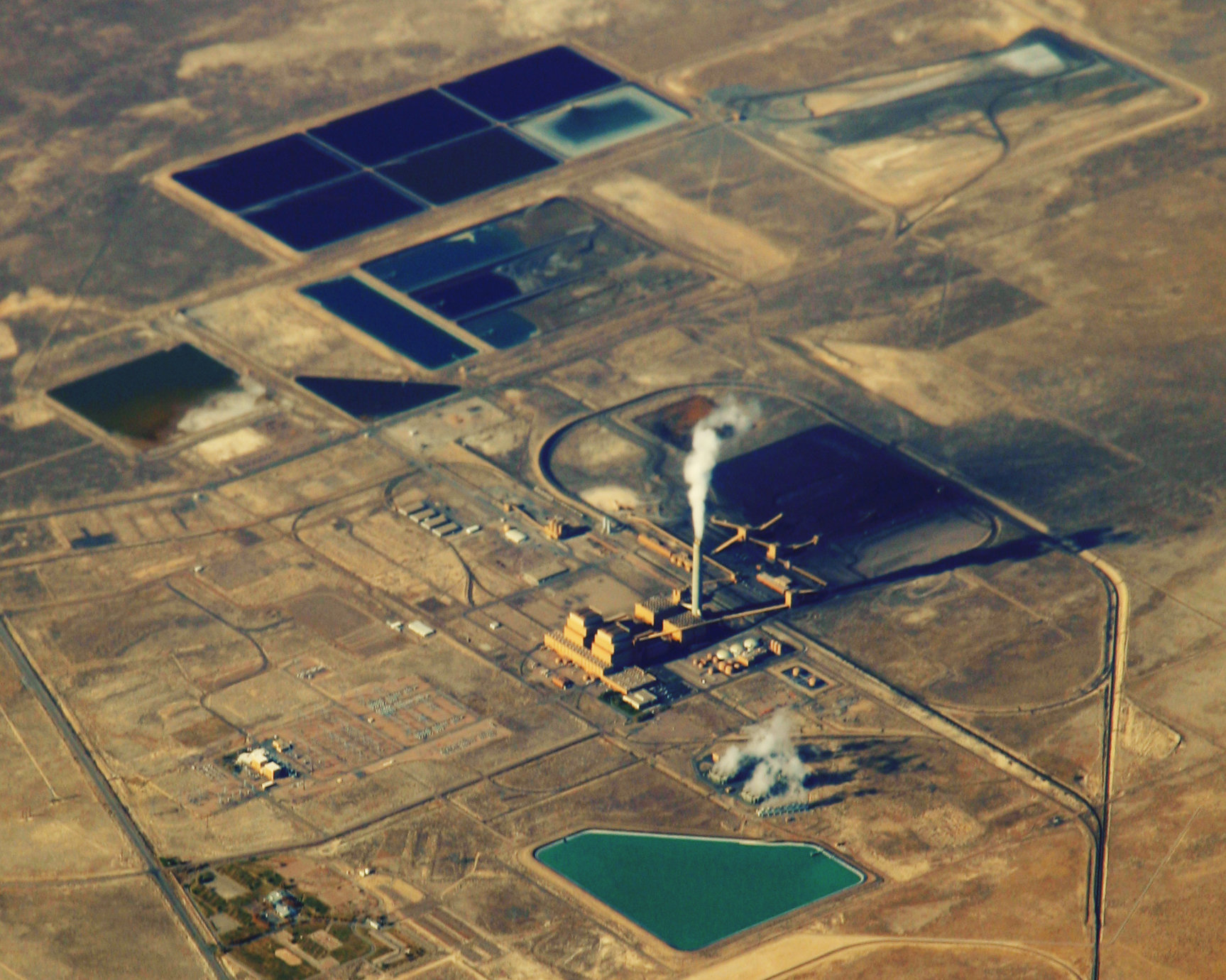 The Intermountain Power Plant, which is located in the heart of Utah, in Millard County. It is operated by the Los Angeles Department of Water and Power. Currently burning coal. It will be converted to natural gas by 2025.